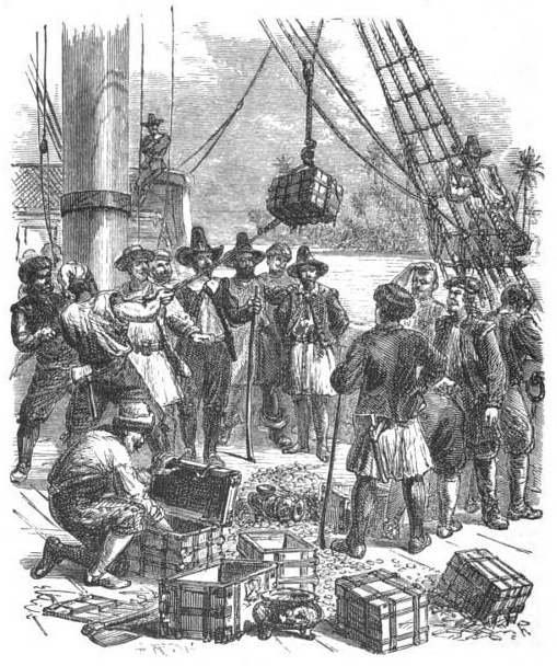 Engraving depicting William Phips loading treasure found in a shipwreck in 1687.